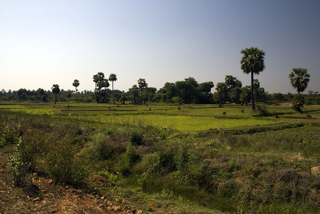 View of fields near Maadugula in Visakhapatnam district